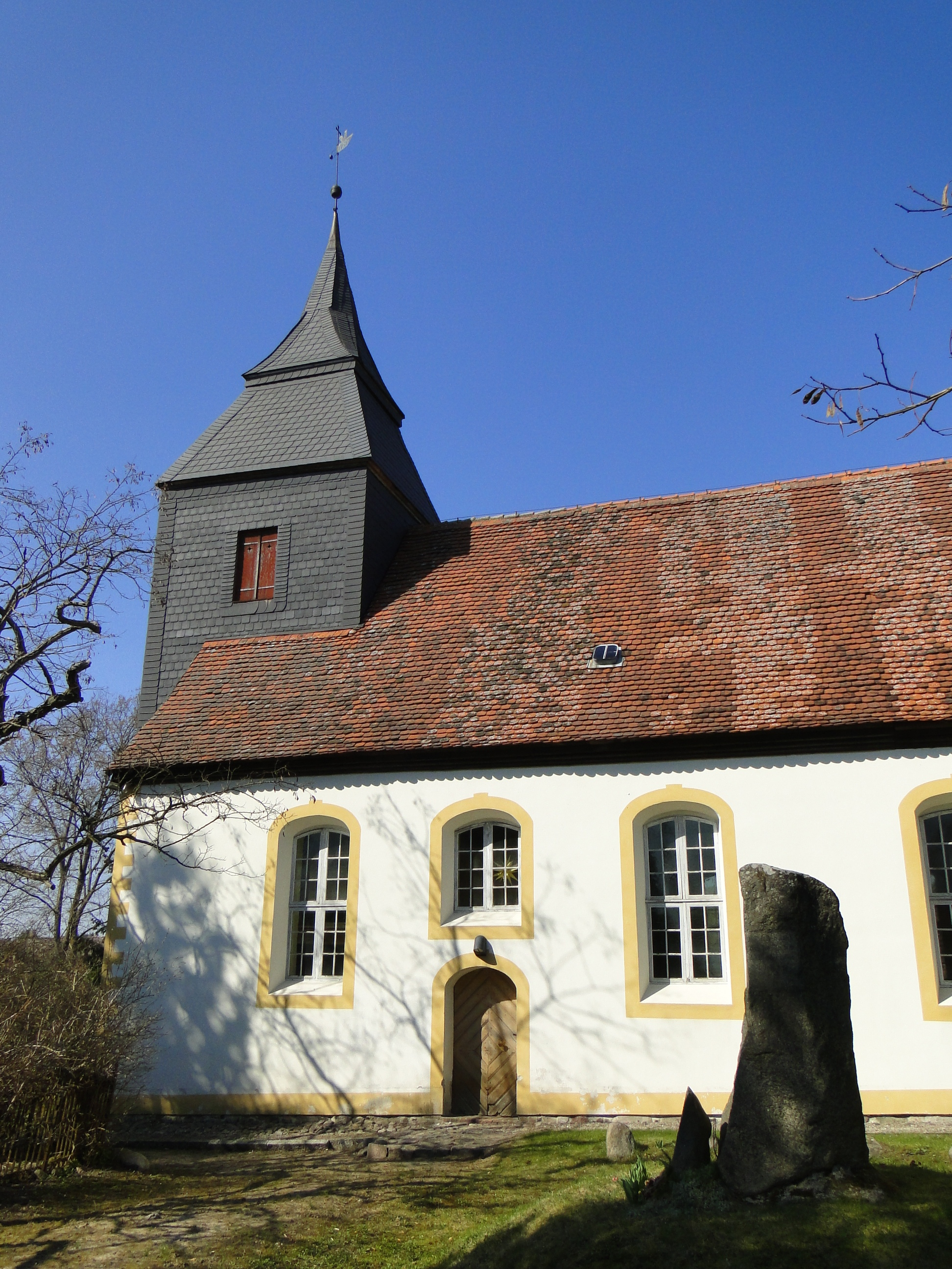 Church in Wokuhl, disctrict Mecklenburg-Strelitz, Mecklenburg-Vorpommern, Germany